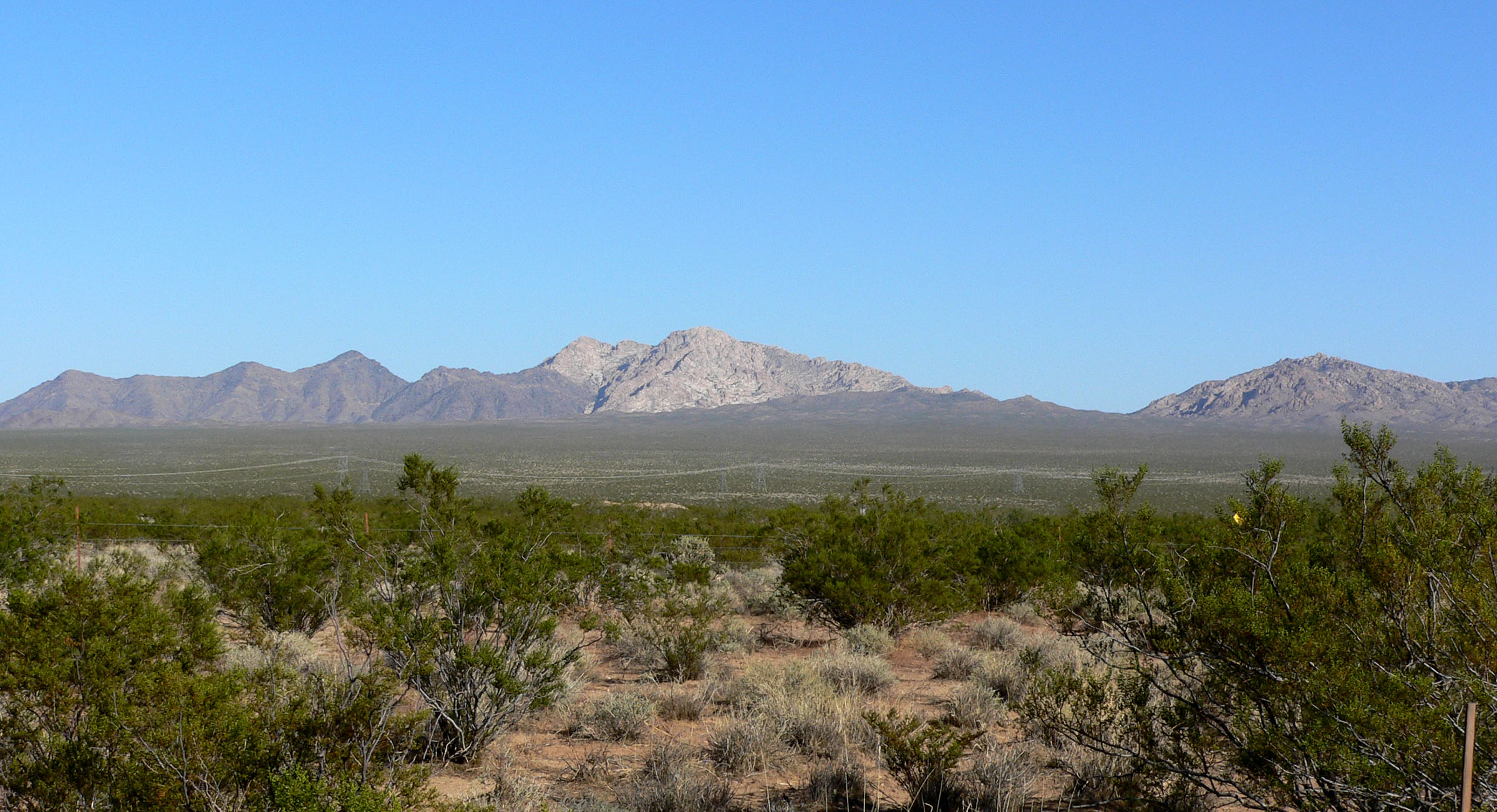 Newberry Mountains seen from the west, in extreme south-easterern Nevada. View is from a southern section of the north-sloping Eldorado Valley, an endorheic basin; all drainages end at a dry lake. The route "U.S. 95 in Nevada" goes north-south in the valley from Boulder City-Henderson, south to Searchlight, etc. (It rises steeply out of the valley north to intersect with U.S. Route 93, Henderson-Boulder City.)